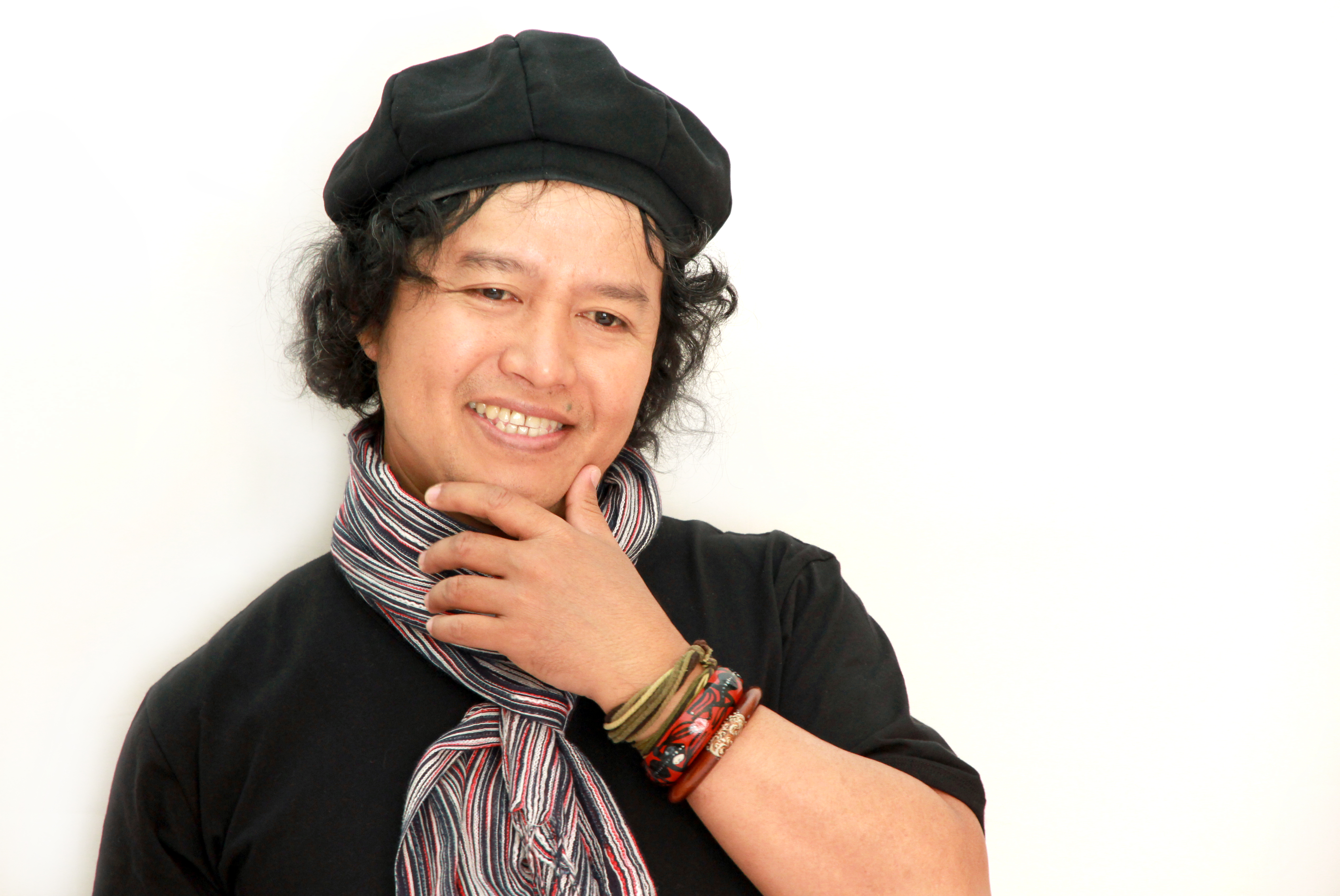 Photo taken in MAy 2012